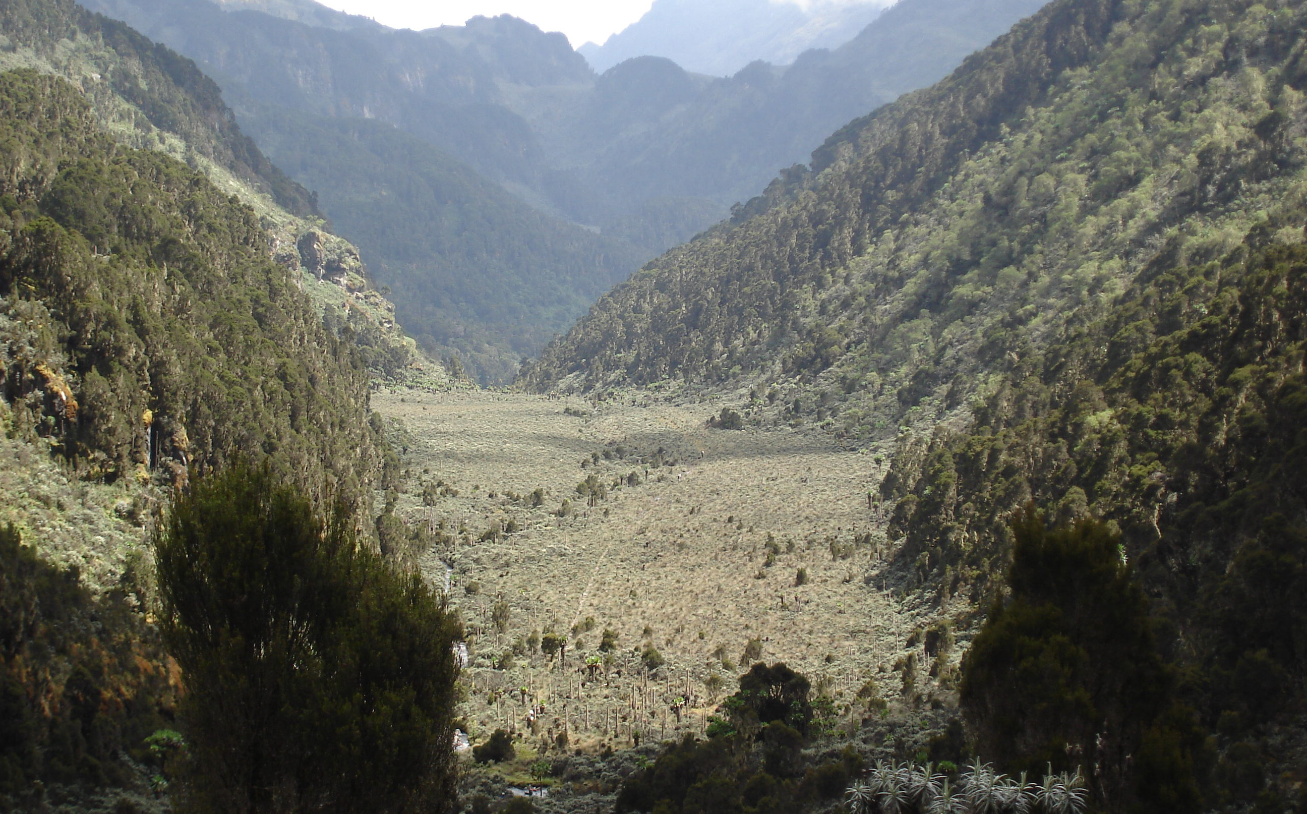 Upper Bigo Bog of Rwenzori National Park, Uganda, 2008